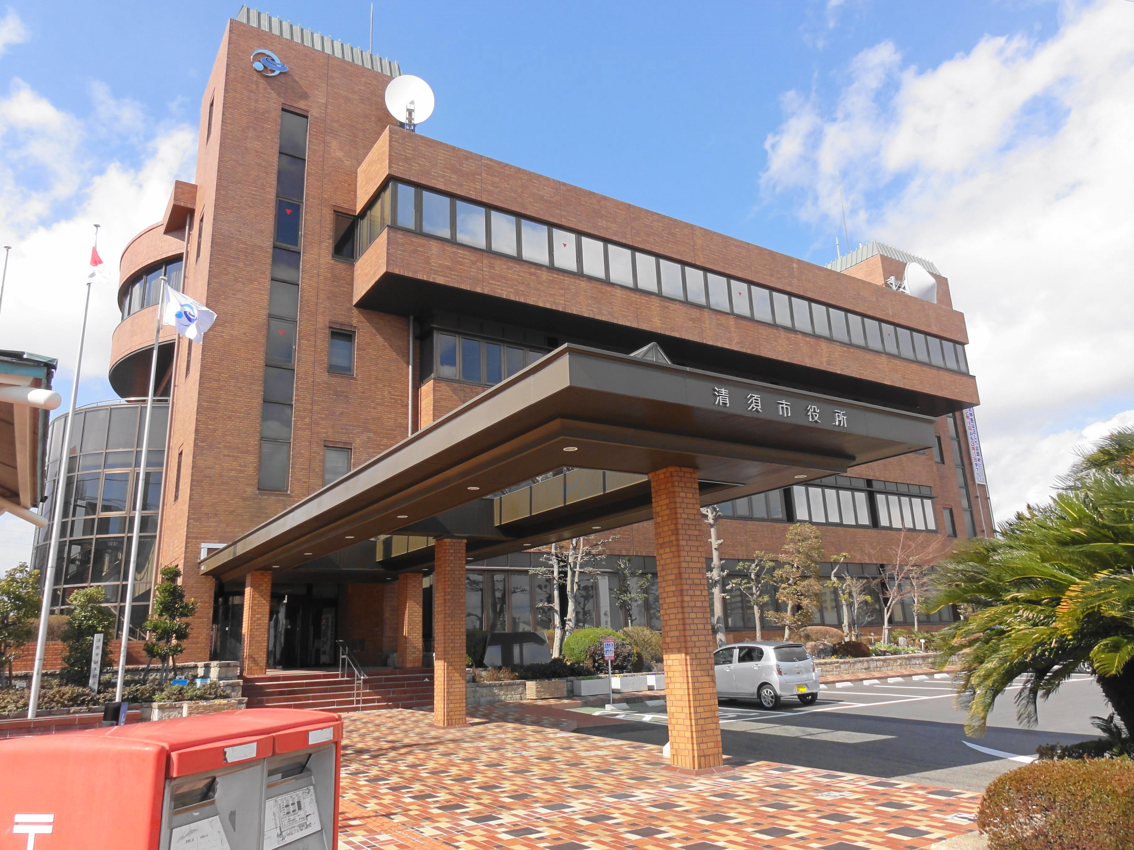 Kiyosu city office,Aichi prefecture,Japan